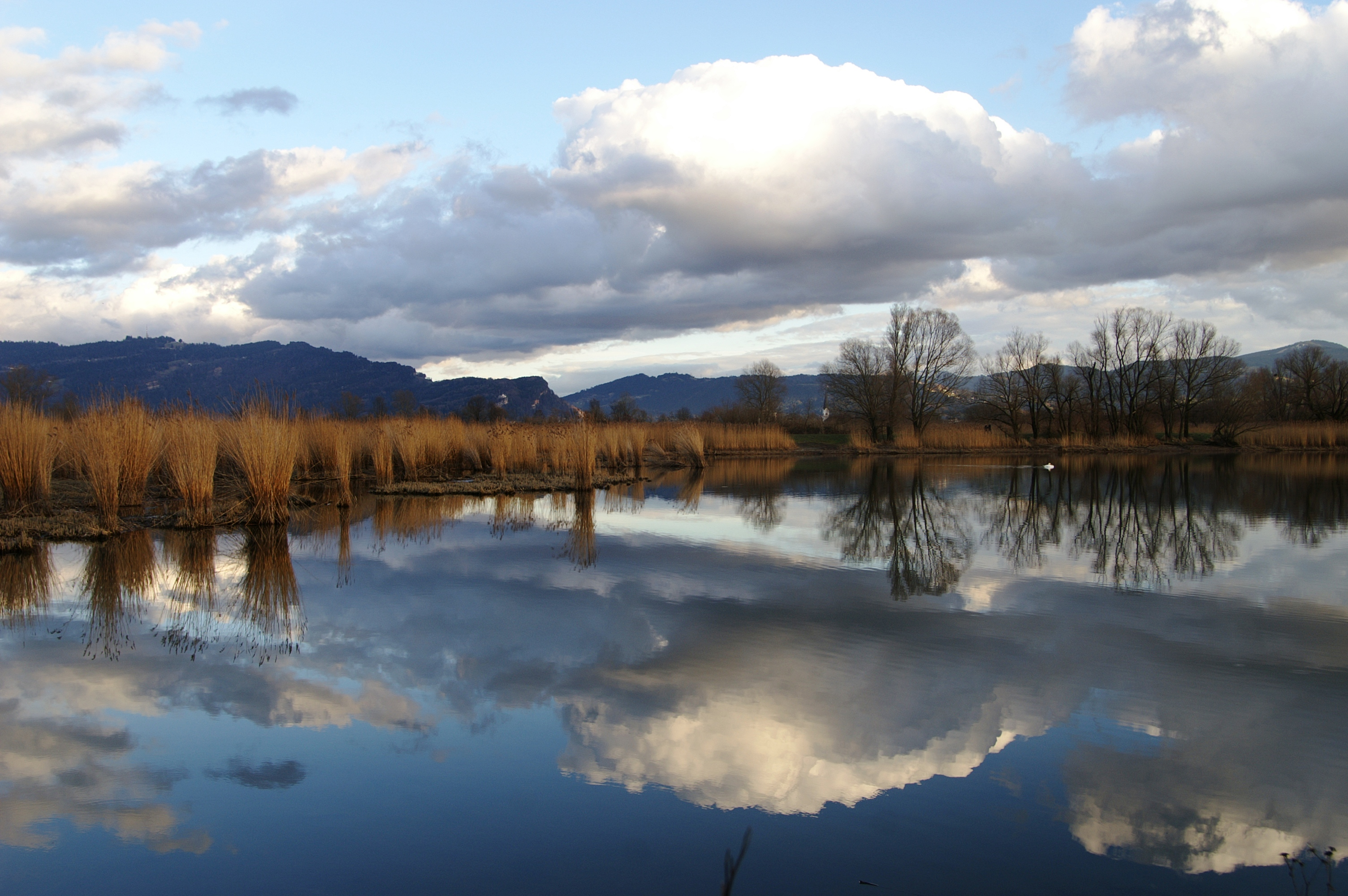 The Schleienlöcher nature reserve in Hard (Austria) with view towards the Pfänder the Gebhardsberg and the Bregenzerwald.